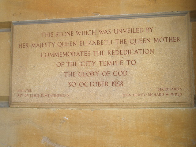 Commemorative plaque outside The City Temple